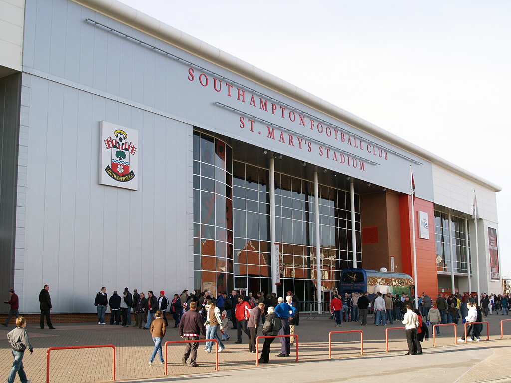 The Itchen Stand at The Friends Provident St. Mary%u2019s Stadium, home of Southampton FC. Saturday 26th January 2008